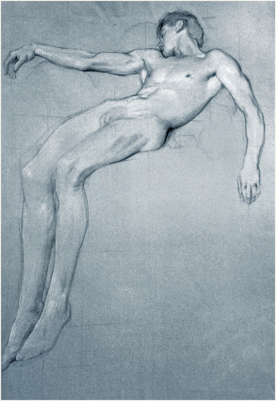 Study.